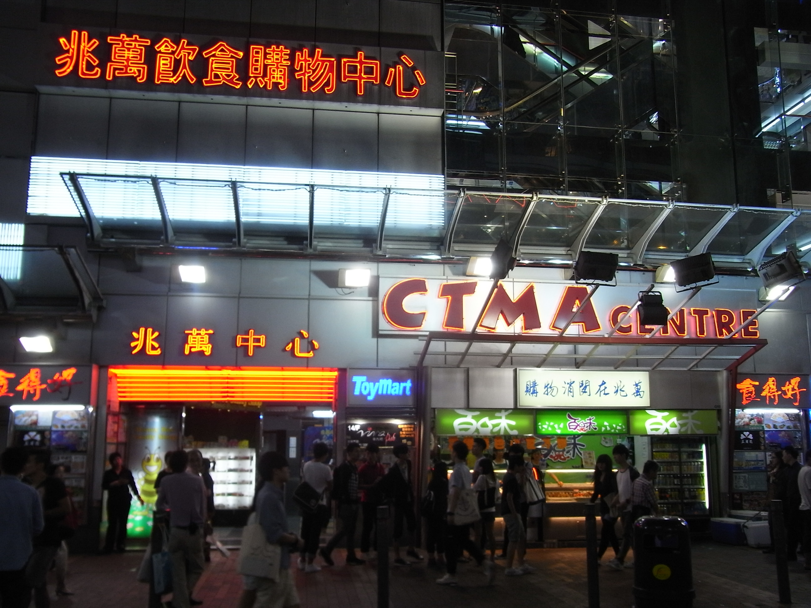 旺角 西洋菜南街, Sai Yeung Choi Street South, Mongkok, Hong Kong